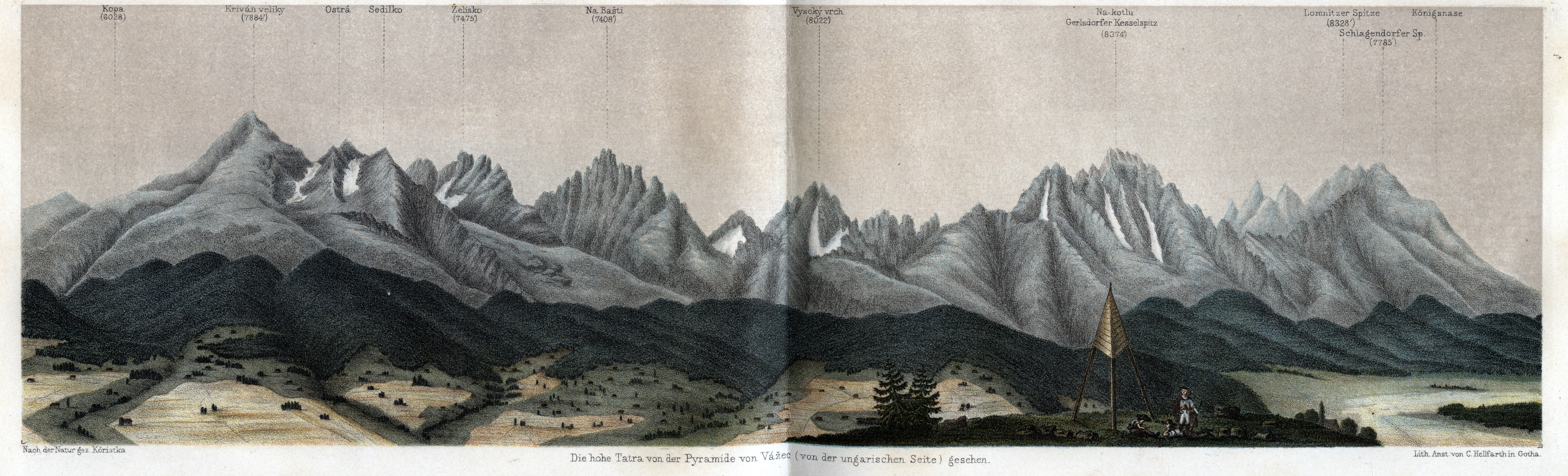 High Tatras from Slovakian side, 1865